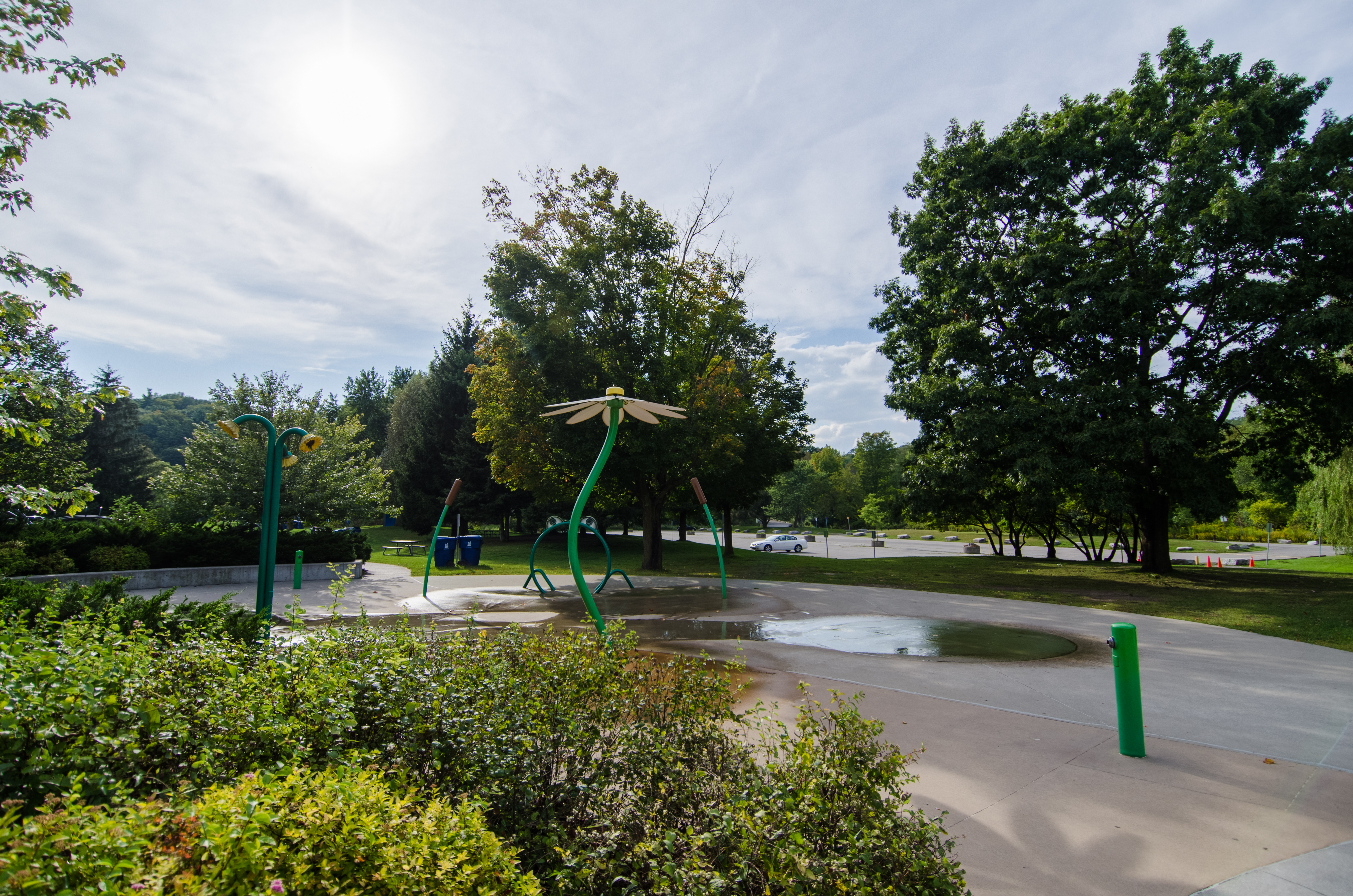 Seen in The Incredible Hulk.